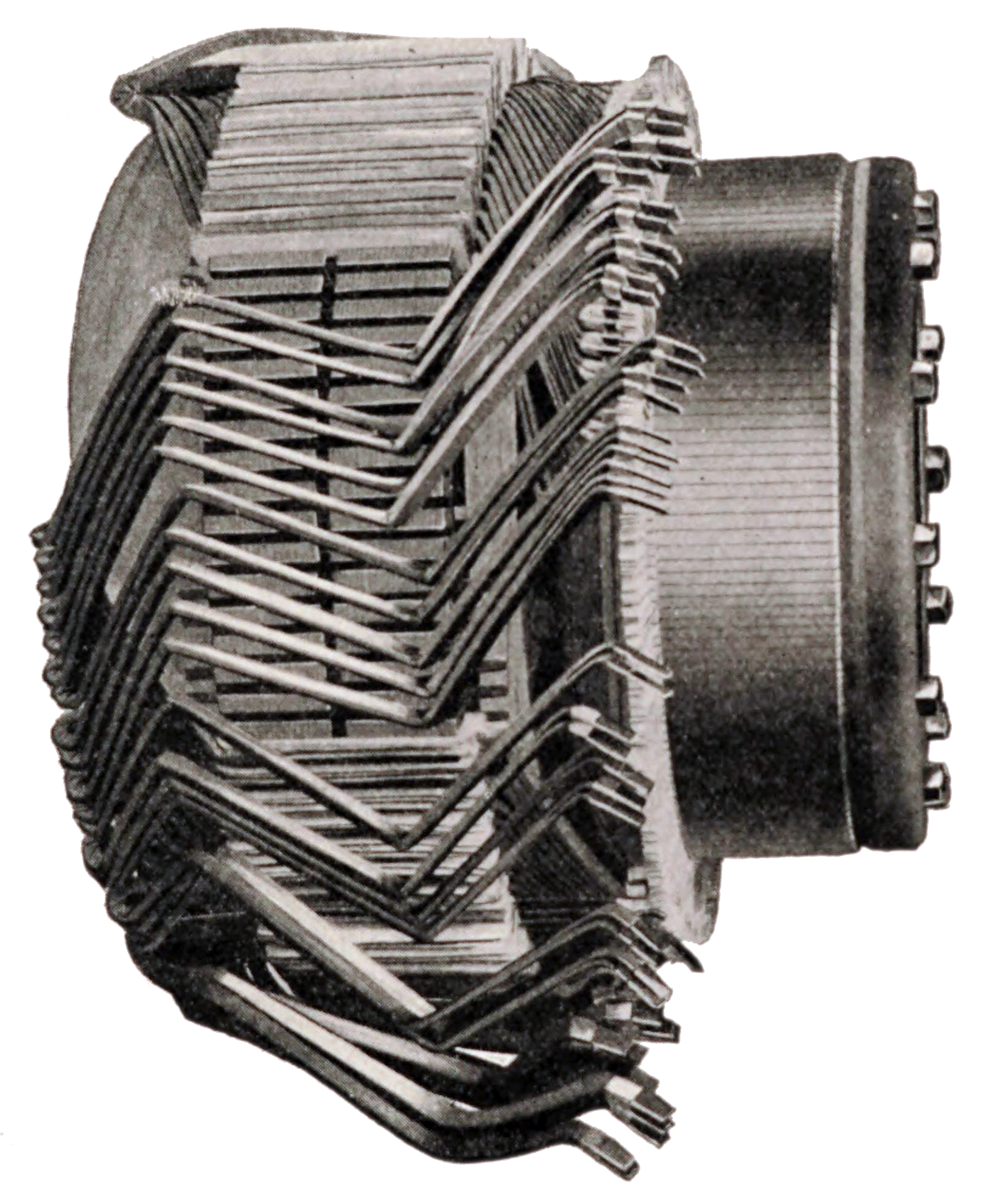 Image of a "Fort Wayne Armature partially wound, showing formed coils" from the book "Modern radio practice : a practical presentation of the principles of wireless communication, including simple and clear instructions on how to operate wireless devices and how to comply with government requirements for operators"